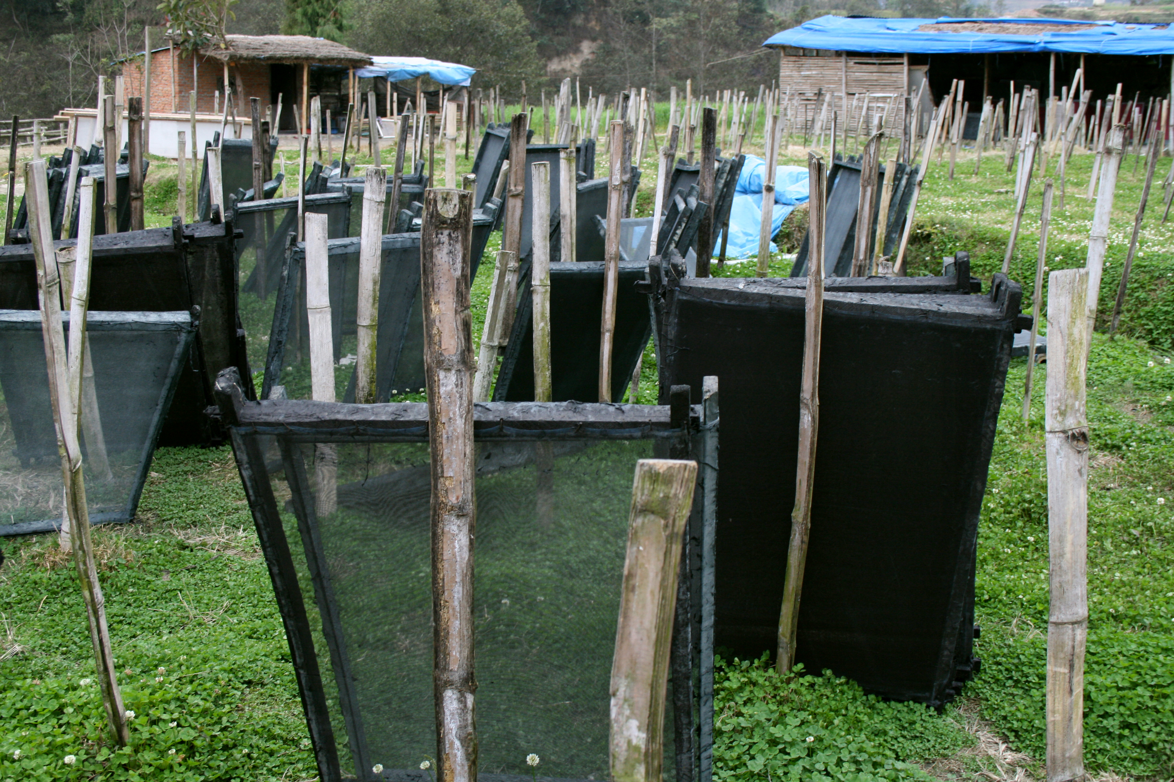 Paper making frames drying in the sun in Mahaguthi organization's paper workshop in Kathmandu.